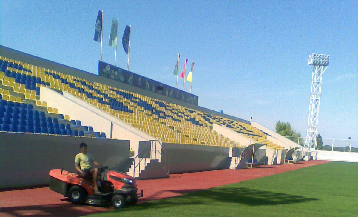 Soniachnyi Stadium in Kharkiv, Ukraine